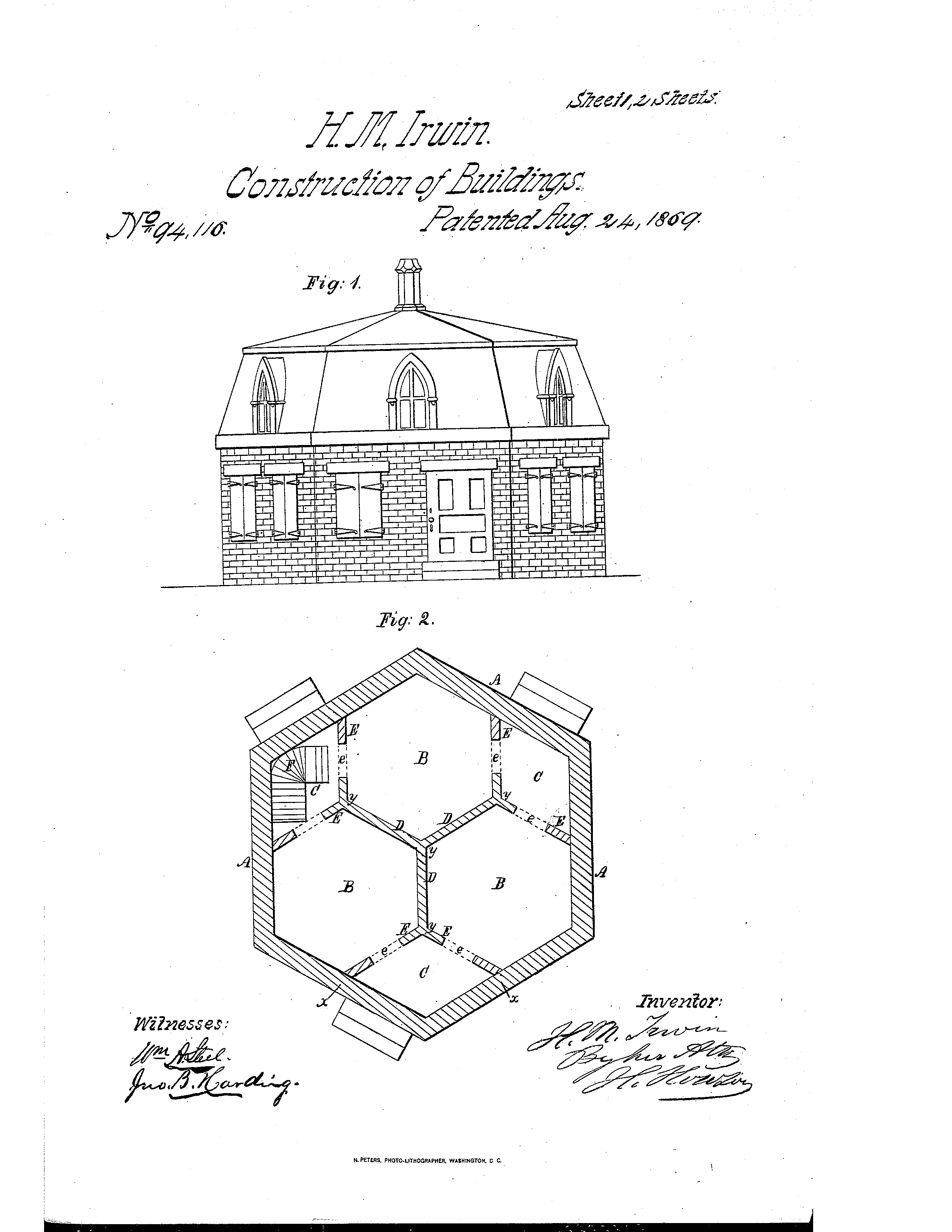 Harriet Morrison Irwin's Hexagonal House First Image